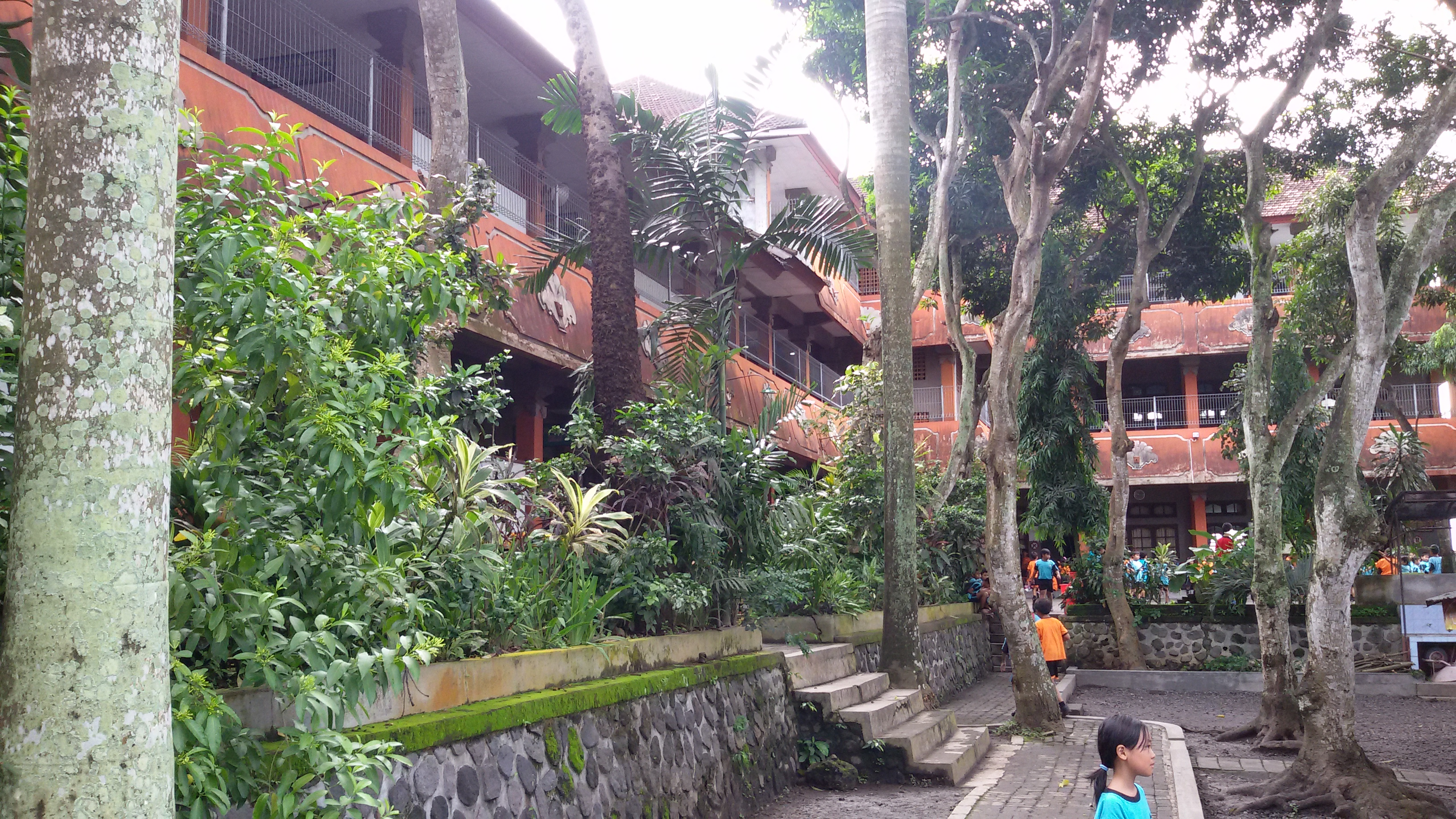 Tegaljaya Elementary School, Kuta, Indonesia